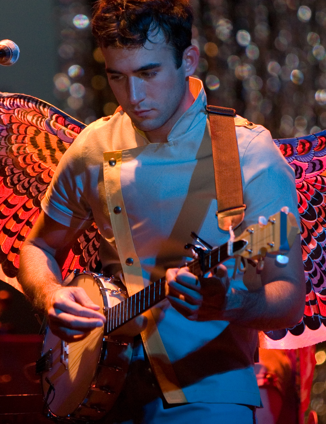 Sufjan Stevens performing at the Pabst Theater in Milwaukee. Photo taken from shifting pixel, photographer: Joe Lencioni.